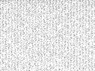 Every pixel here represents a number in the range 1 to 76,800. If the pixel is black, the number it represents is prime. If the pixel is white, that number is not prime. So for example, the white pixel in the upper-left represents "1", which not prime. The next two black pixels to the right in the same row represent "2" and "3", which are prime. For any pixel, the number it represents is given by number = column + (row-1)*320 where column runs from 1 to 320, and row from 1 to 240. See the list of the 100,008 primes